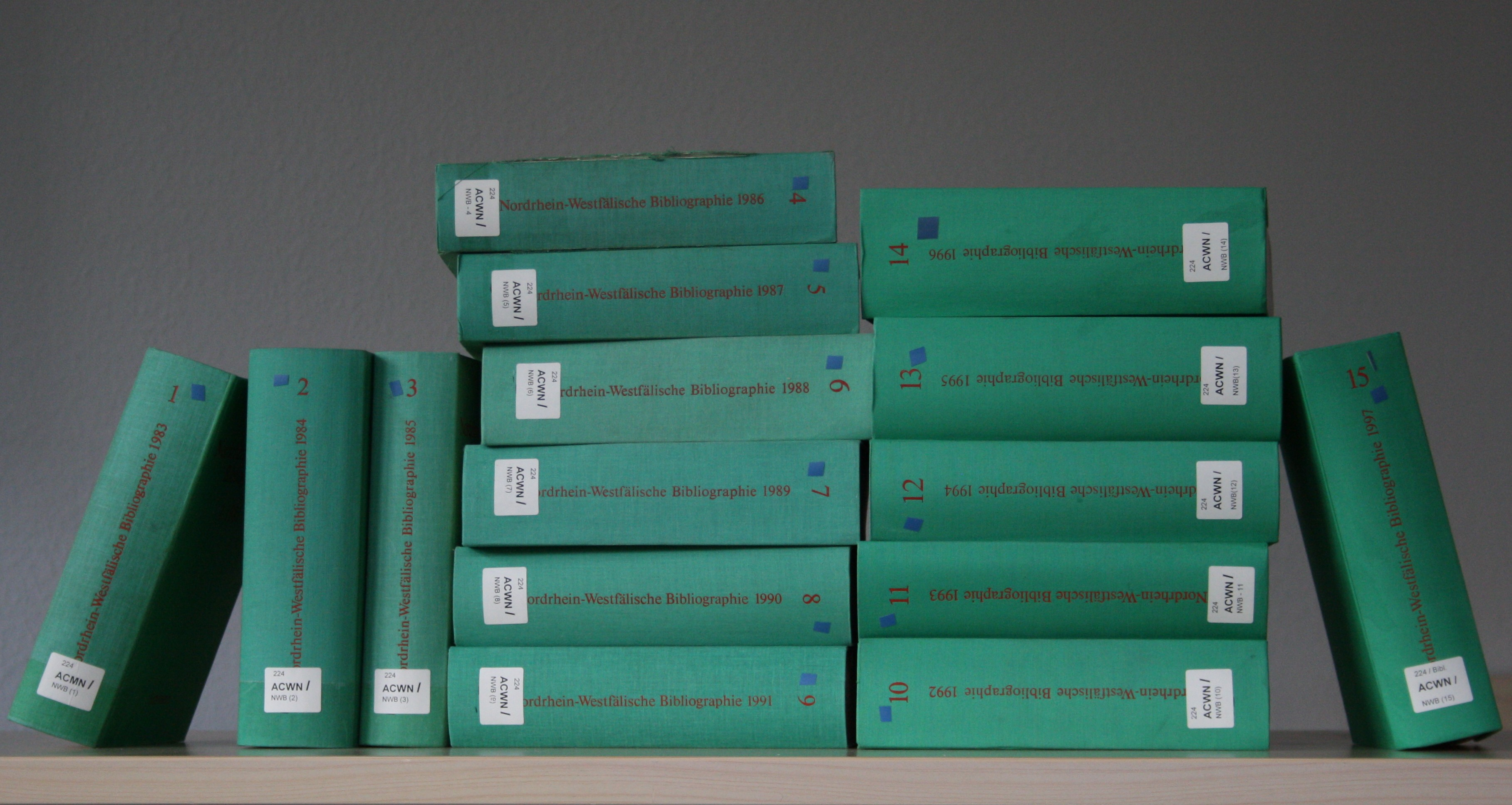 Volumes 1-15 (report years 1983 to 1997) of the North Rhine-Westphalian Bibliography (NWBib).